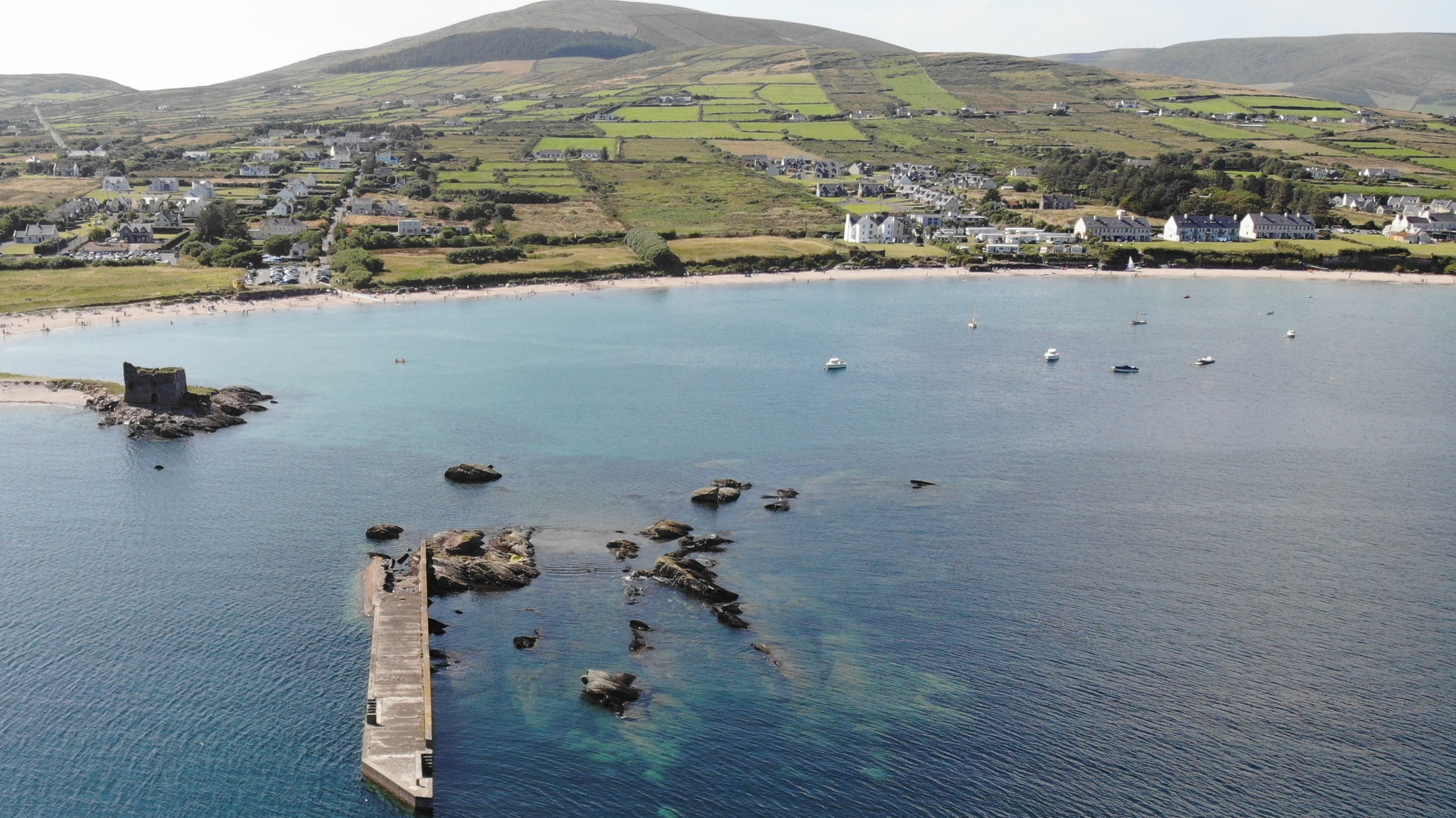 Aerial view of Ballingskelligs and shoreline. Ballinskelligs Castle also visible.